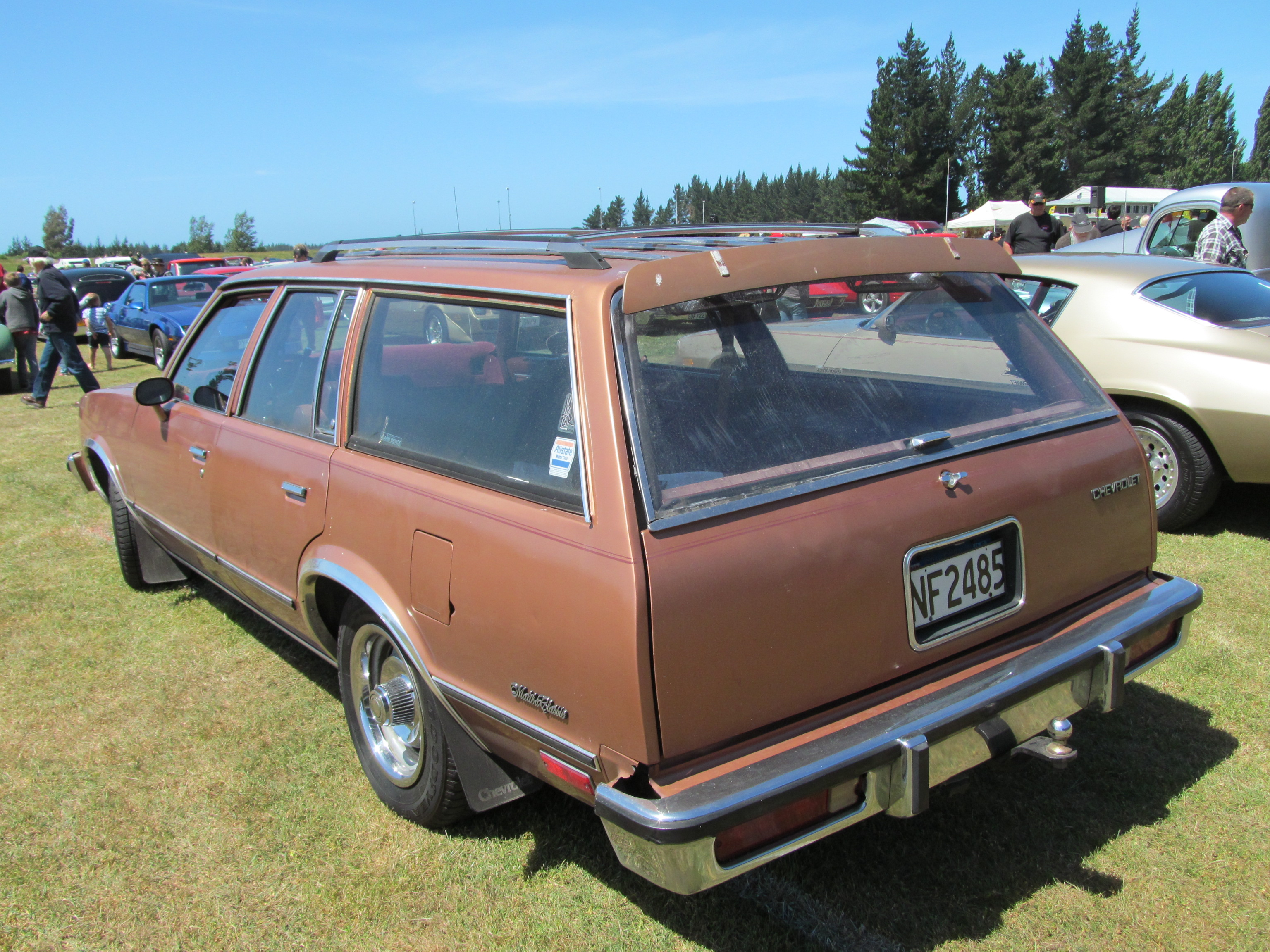 I've never really liked cars that have smooth tailgates and taillights in the bumper, but it suits this car quite well. For what would be considered a compact car in the USA this has some generous boot space, but of course this is quite big in NZ terms.